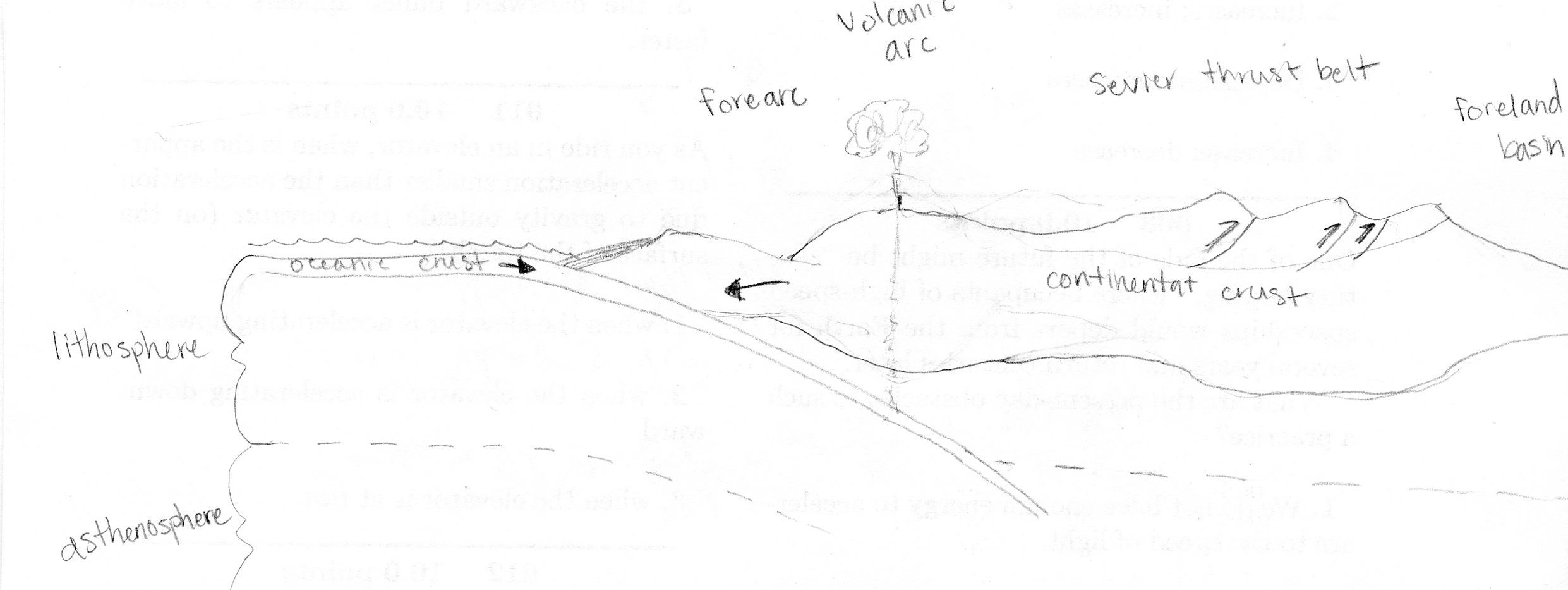 Cross section of the Sevier fold and thrust belt and geologic features that accompanied the orogeny.